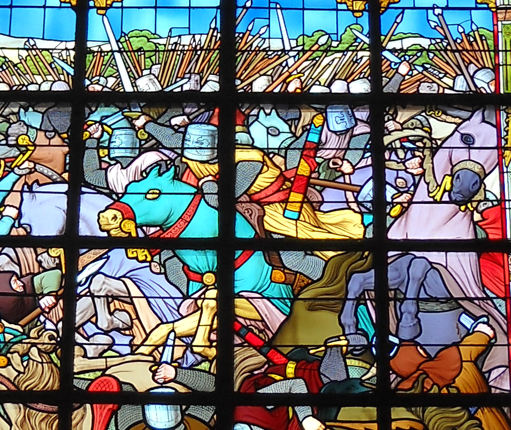 Stained glass inside St.Peter's church, in Bouvines, Nord, France: Saint-Pol endangers the Flemish army.